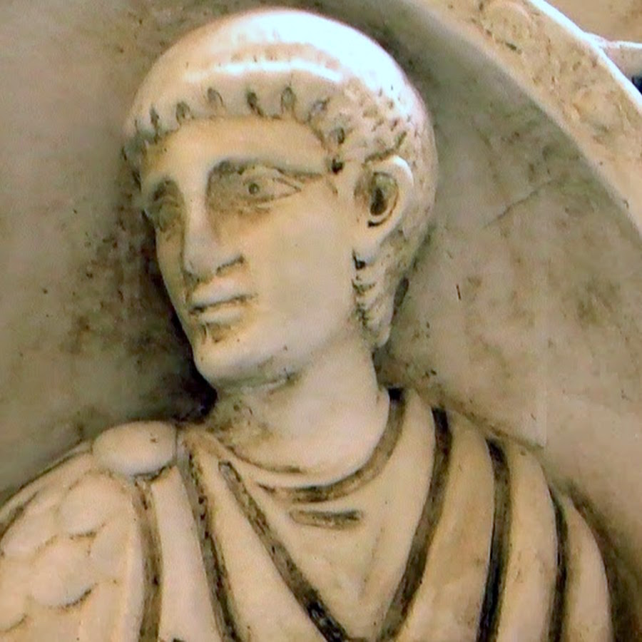 Possible diptych of Aetius. Historian Ian Hughes in his book Aetius: Attila's Nemesis suggests that this may very well be Aetius.